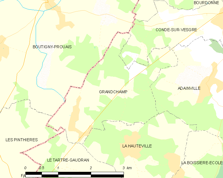 Map of French municipality Grandchamp